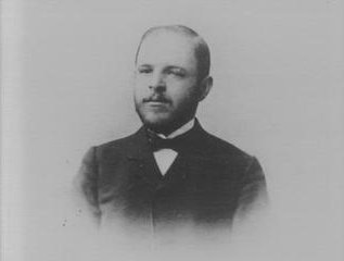 Vignetted studio portrait of Hebrew writer Hayyim Nahman Bialik